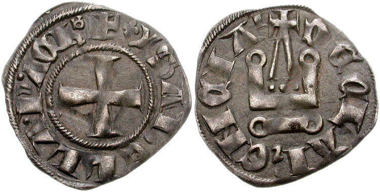 Crusaders, Frankish Possessions in Greece, Principality of Achaea. Isabelle de Villehardouin. 1297-1301. BI Denier Tournois (18mm, 0.84 g, 2h). Type 1. Cross pattée; B and lis flanking initial cross Châtel tournois; I to left of initial cross. Metcalf, Crusades 962-965; CCS 15a var. (no I). Principality of Achaea: de, en, fr, hu, it, ja, pl, sk